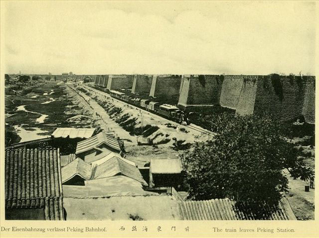 old photo from China 1900-1903, see the file's name for detail.